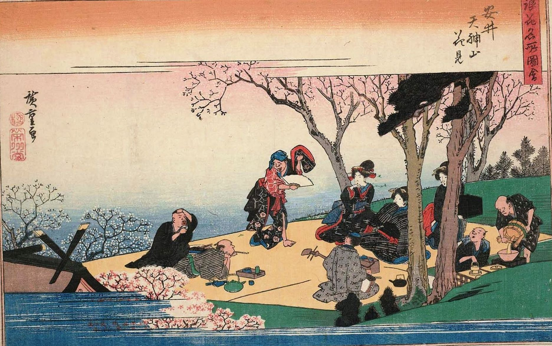 難波名所図絵 安井天神山花見 Cherry-blossom Viewing on the Hill of the Tenjin Shrine in Yasui (Yasui Tenjinyama hanami), from the series Famous Views of Osaka (Naniwa meisho zue